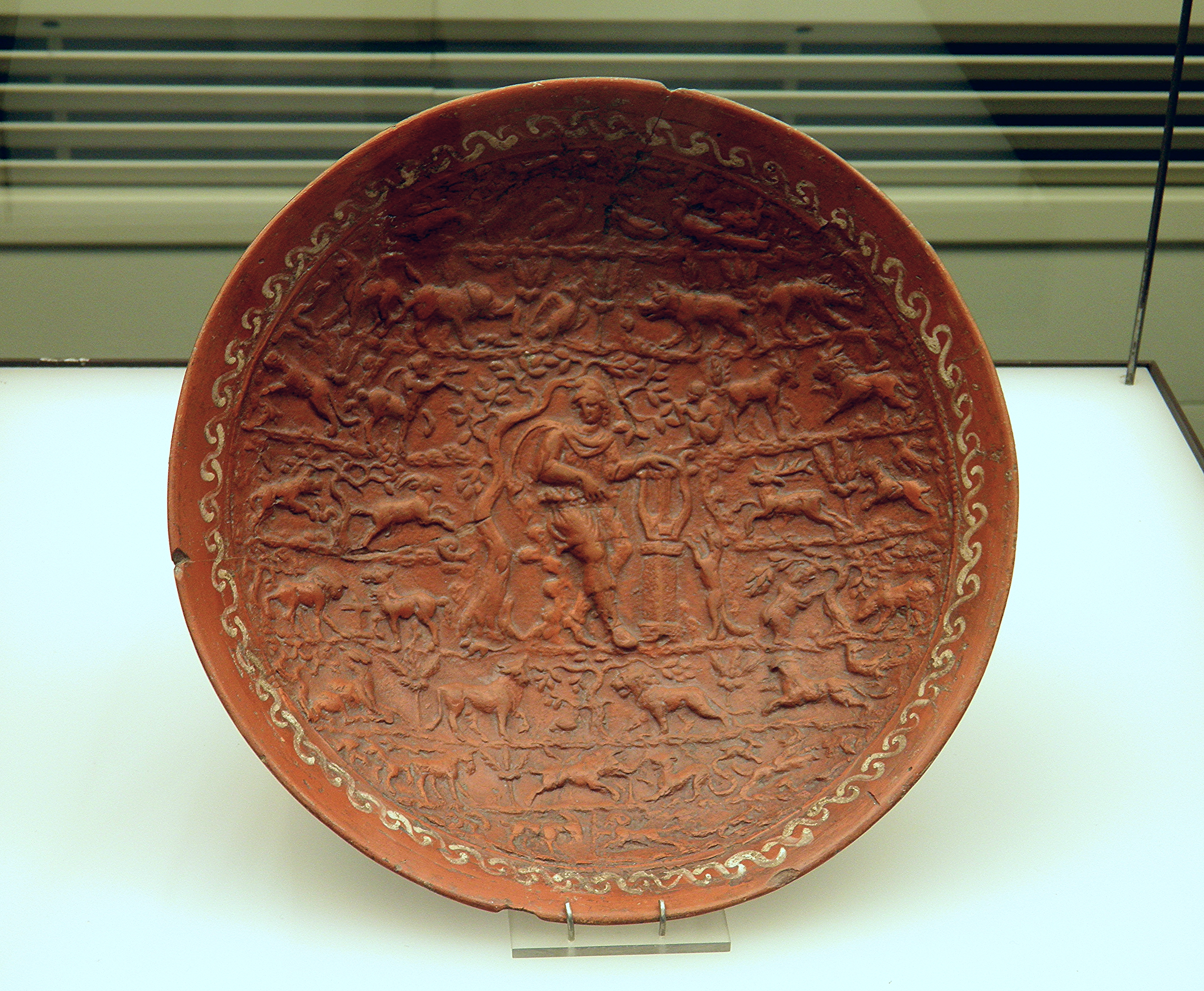 Dish with Orpheus among the animals, Romisch-Germanisches Museum, Cologne